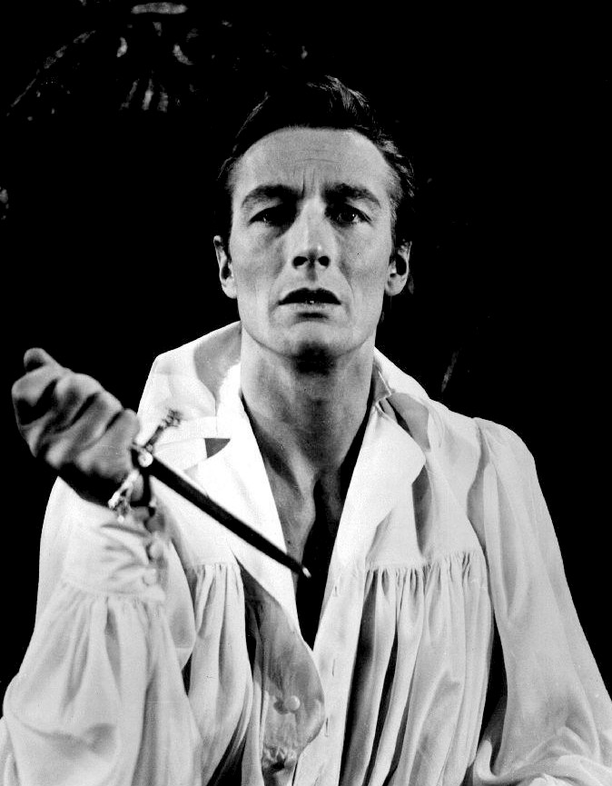 Photo of John Neville as Hamlet from a DuPont Show presentation.